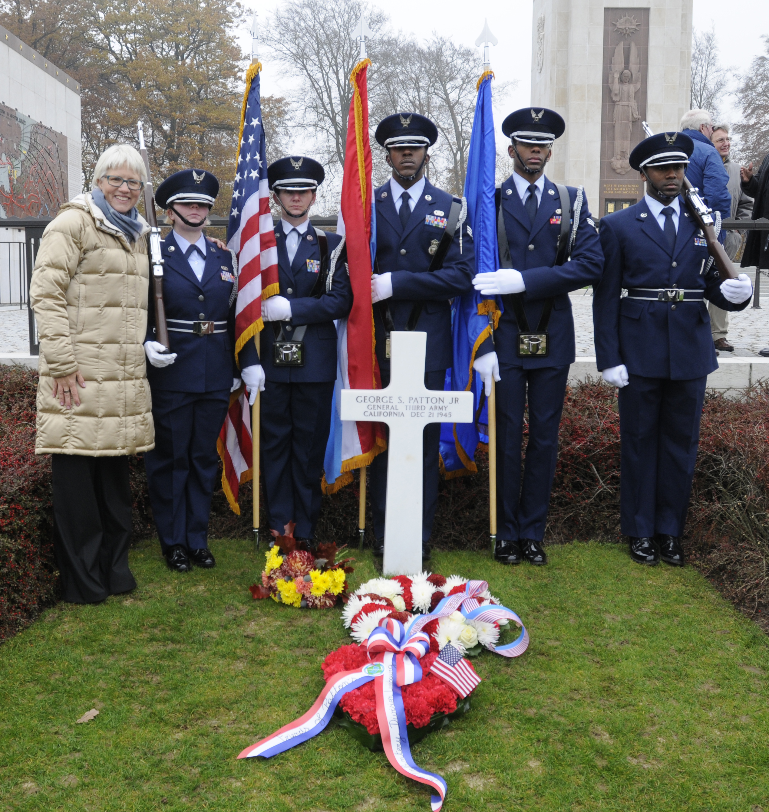 Original caption: "Veterans Day: Honoring American heroes past, present SPANGDAHLEM AIR BASE, Germany -- The 702nd Munitions Support Squadron Color Guard from Buechel Air Base, Germany, stands at attention in front of the grave of Gen. George S. Patton Jr., Third Army commander during World War II, with Helen Patton-Plusczyk, General Patton's granddaughter, during the annual Veterans Day ceremony at the Luxembourg American Cemetery and Memorial in Luxembourg City Nov. 11. The 50.5 acre cemetery, which is one of 14 American cemeteries established overseas after World War II, contains the remains of more than 5,000 American servicemembers who died during World War II. (U.S. Air Force photo/Maj. Jillian Torango). "